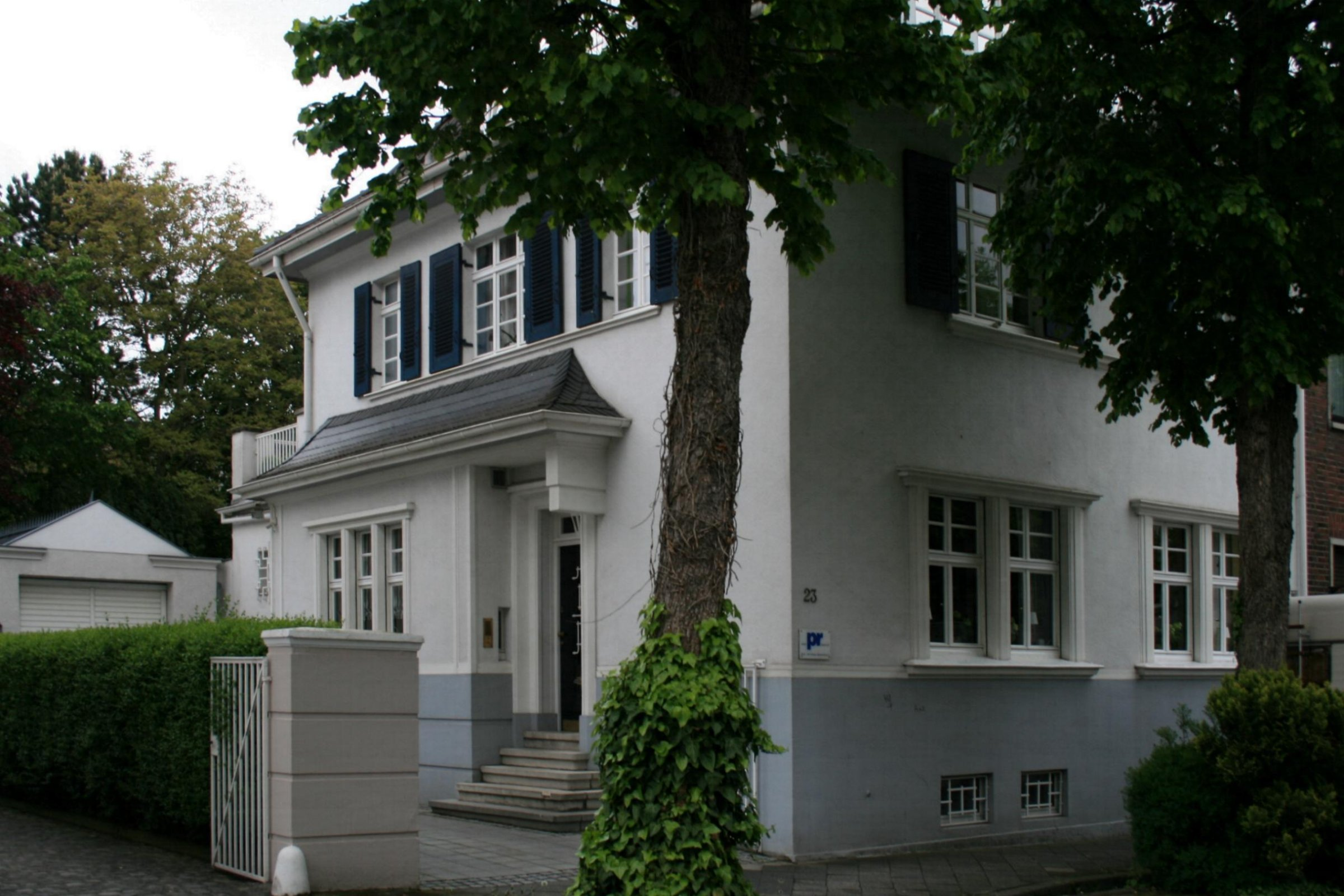 Cultural heritage monument No. B 093 in Mönchengladbach